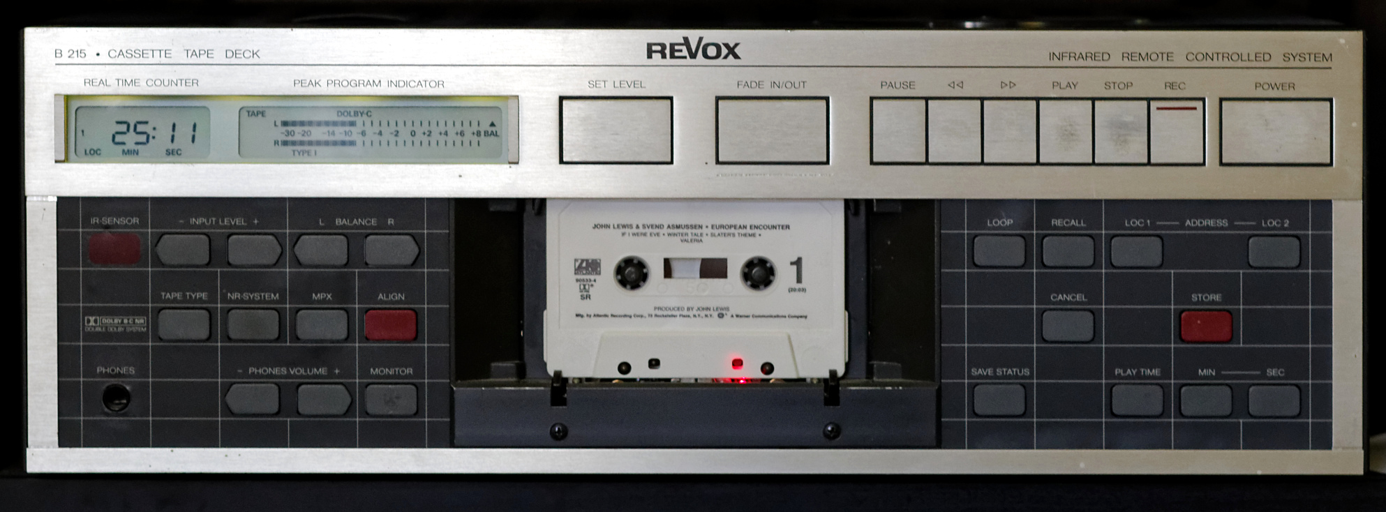 Revox B-215 cassette deck. Made in 1986, overhauled throughout in 2015, works like a clock, built like a tank.